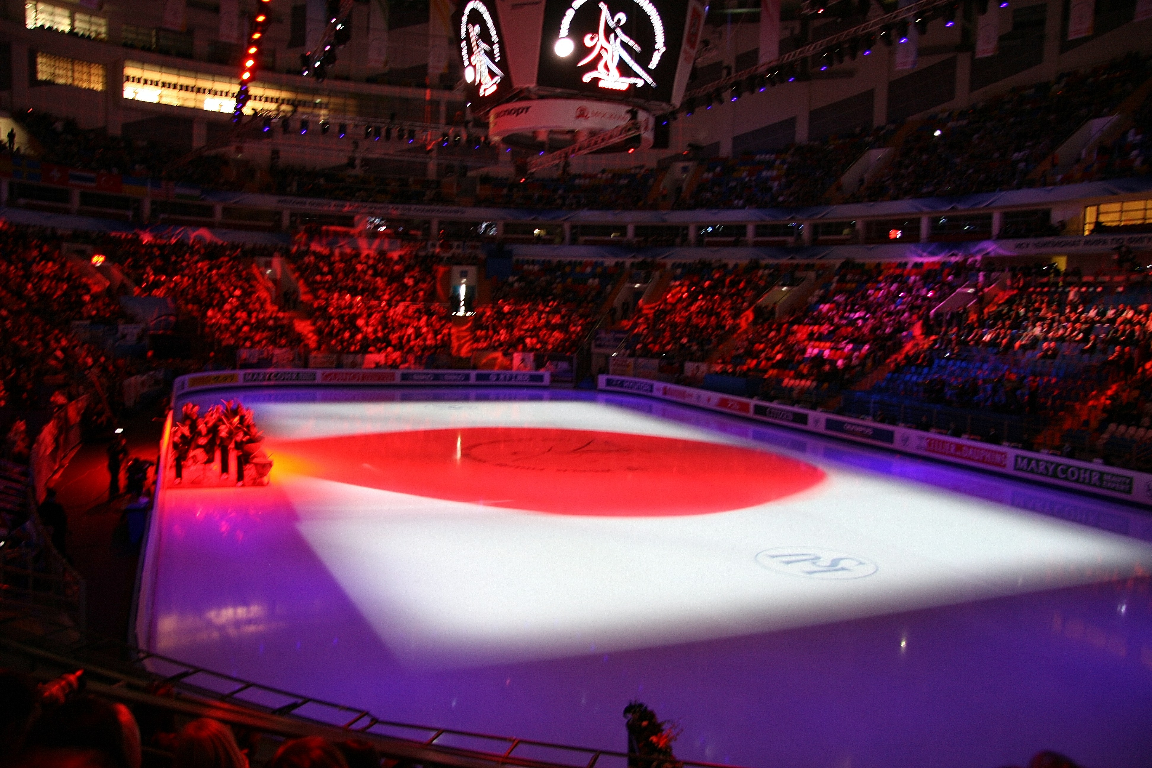 The opening ceremony of the 2011 World Figure Skating Championships dedicated to the tragedy in Japan.